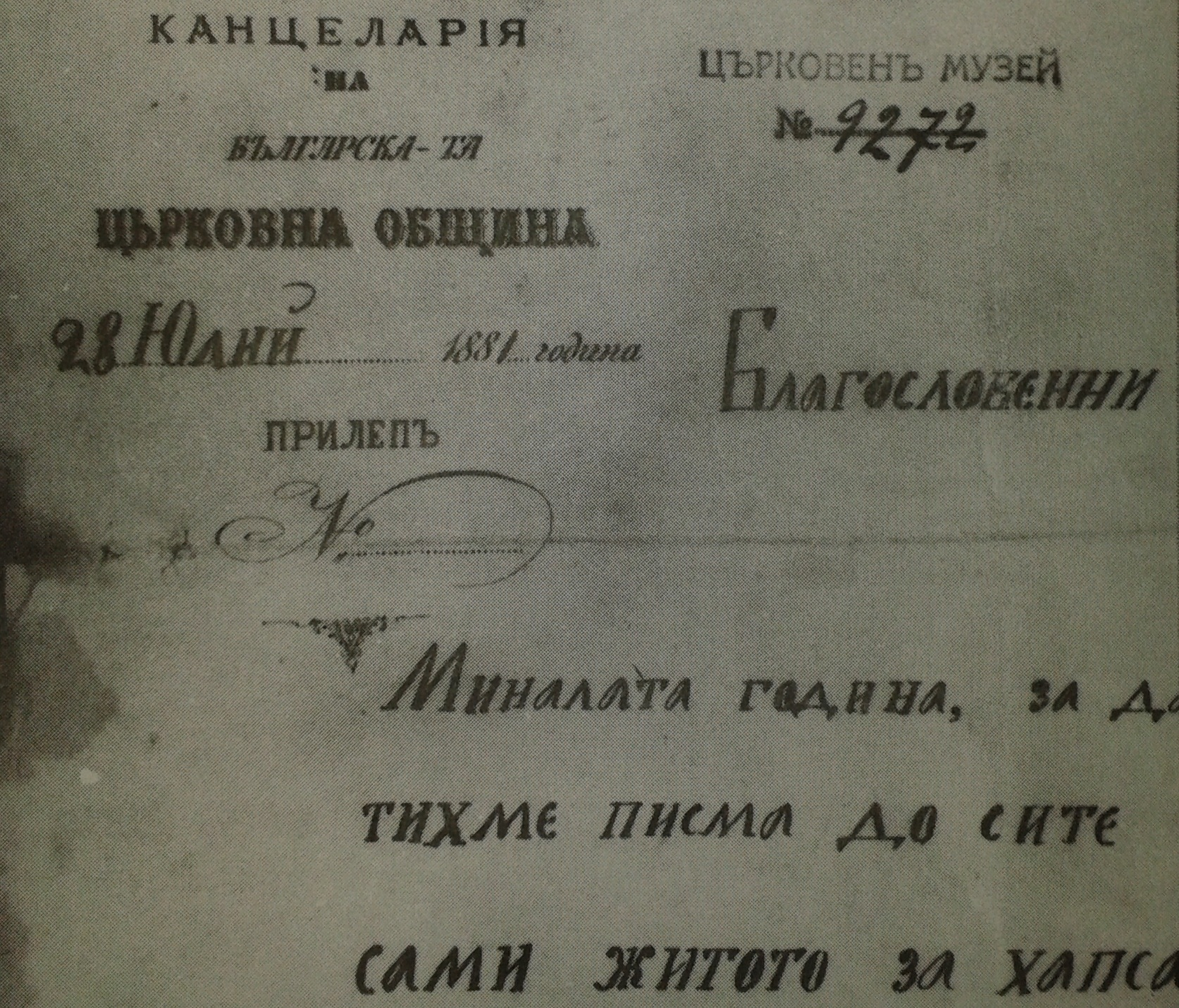 Document of the Prilep Bulgarian Municipality